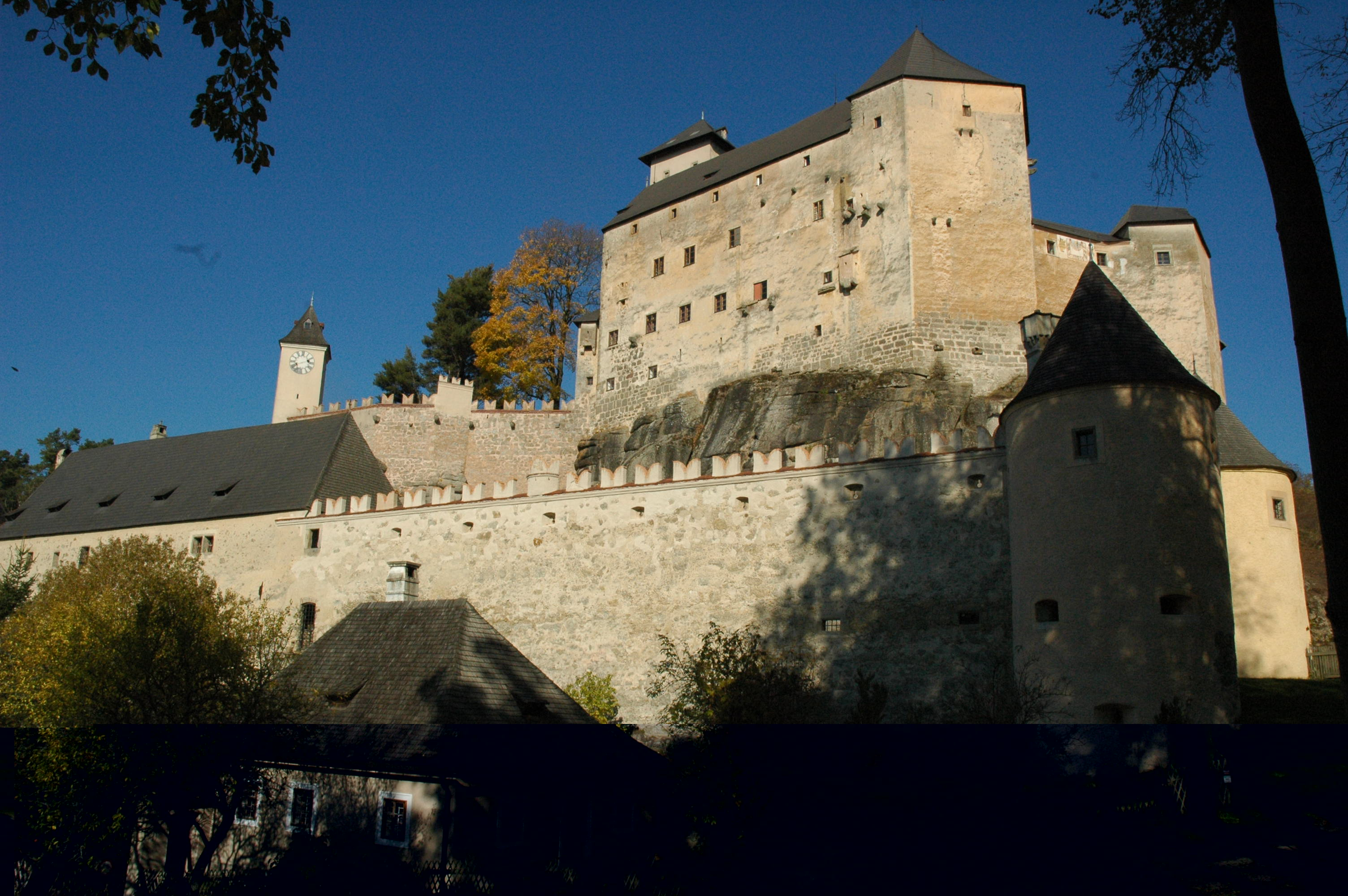 Rappottenstein castle, Lower Austria